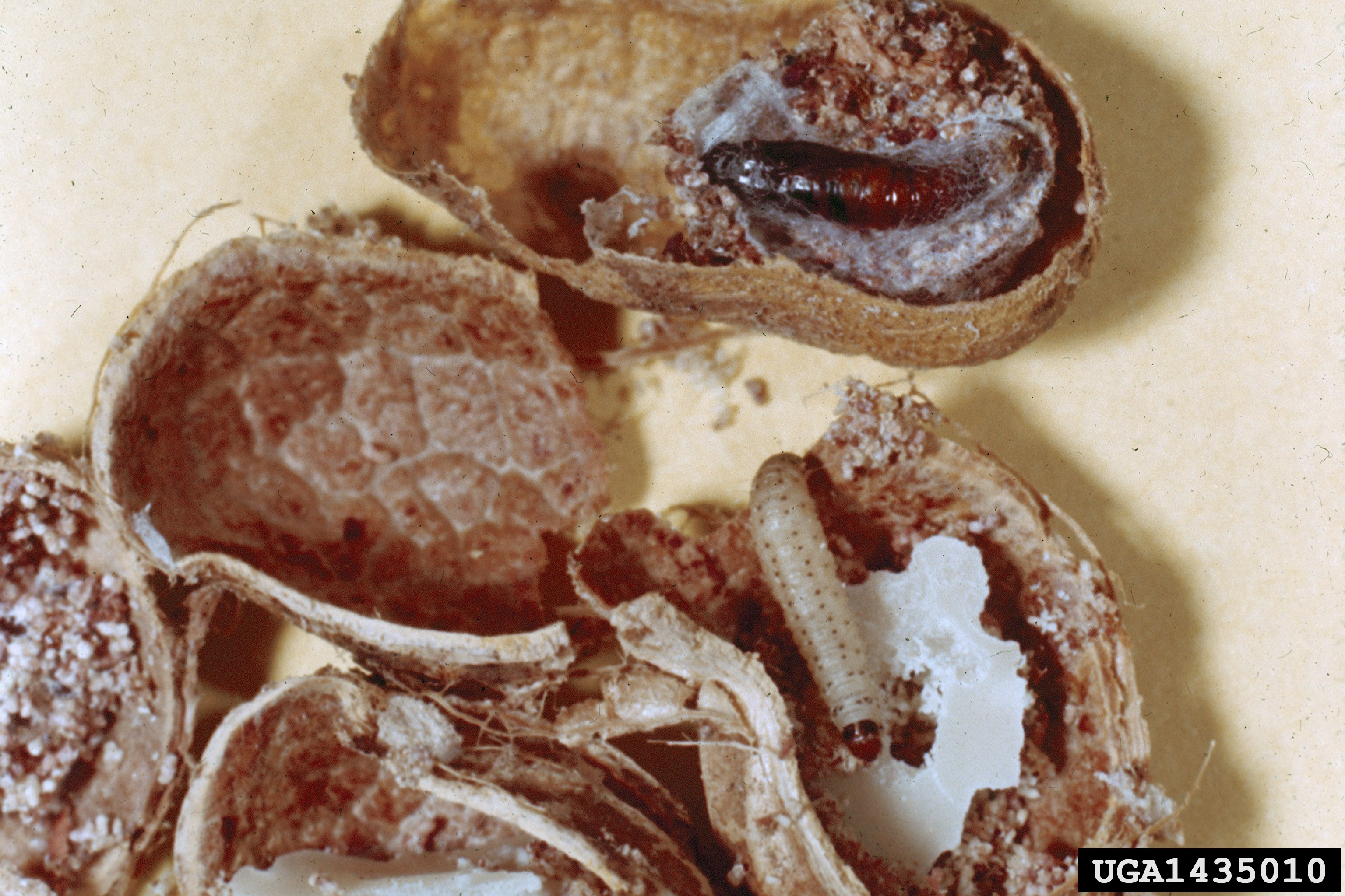 Almond moth larvae on peanut husks